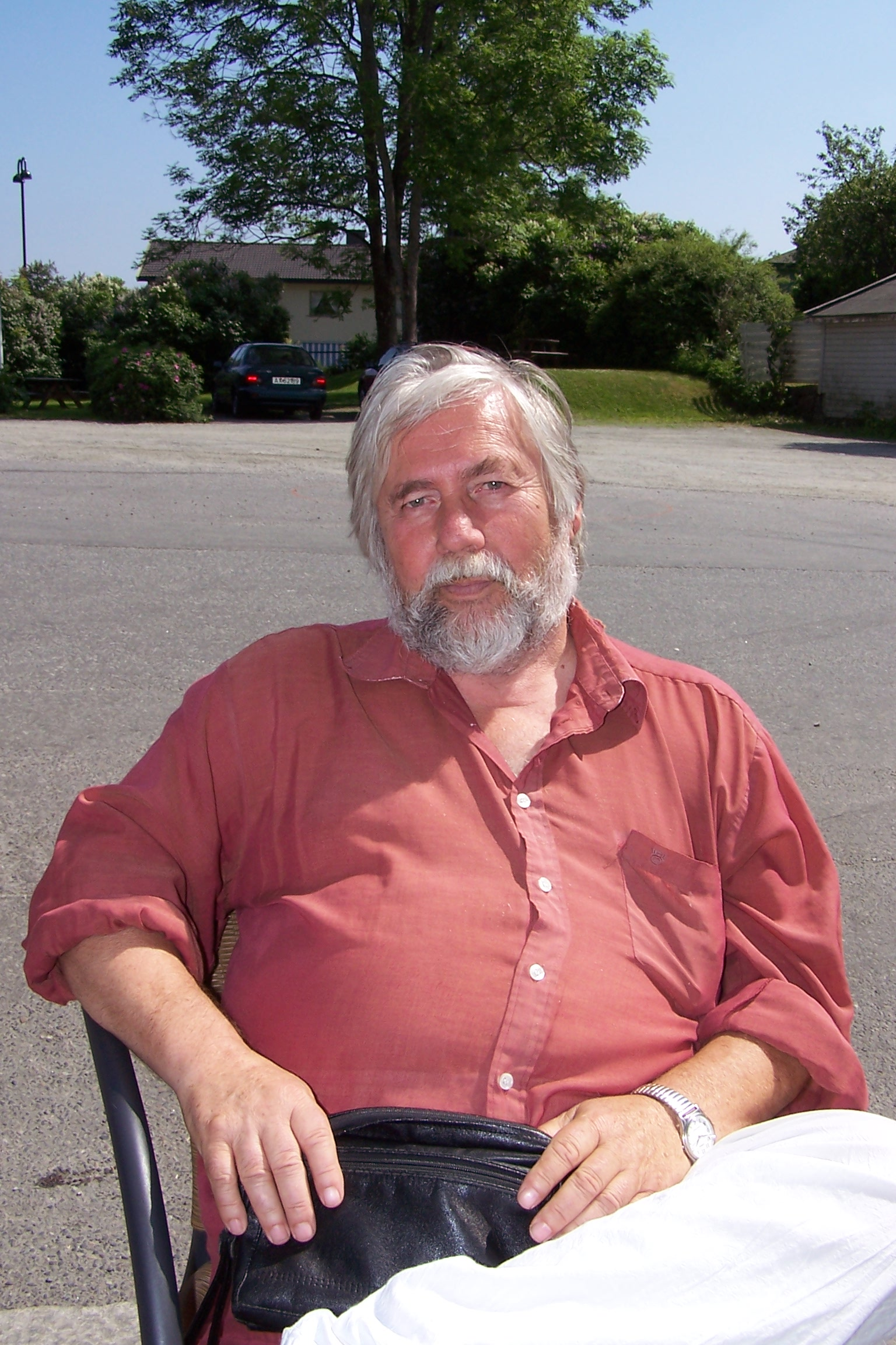 Norwegian author Tor Åge Bringsværd in Hølen, 17 June, 2006